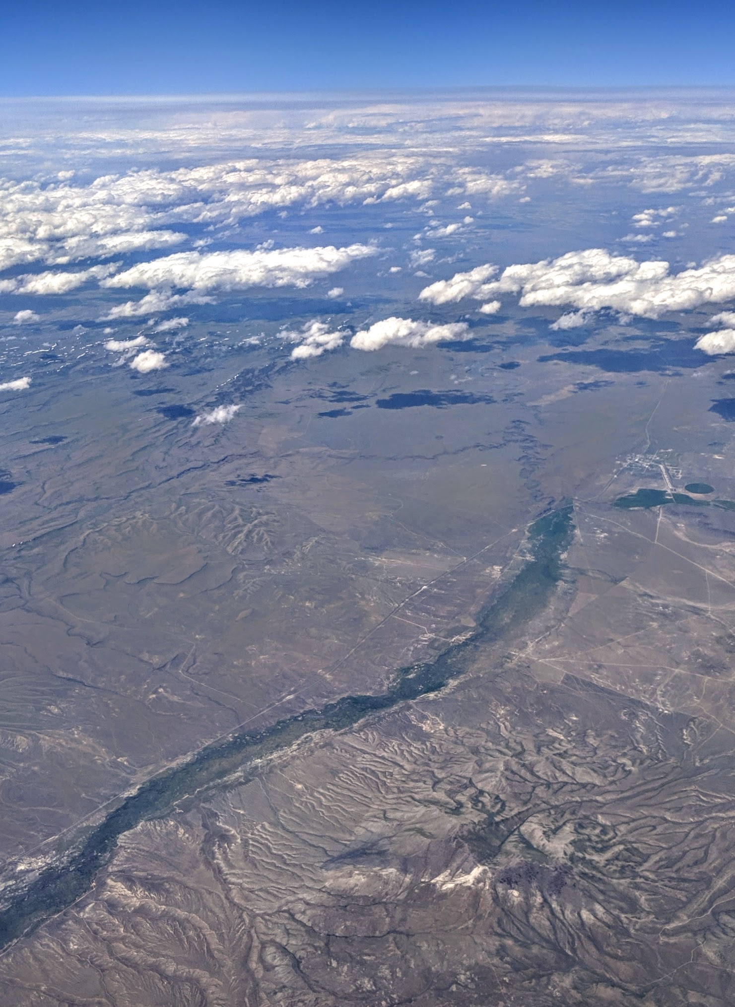 Aerial view of Salmon Falls Creek from the south, where it is approaching Jackpot, Nevada, and the Idaho state line just past the confluence with Cottonwood Creek from the left